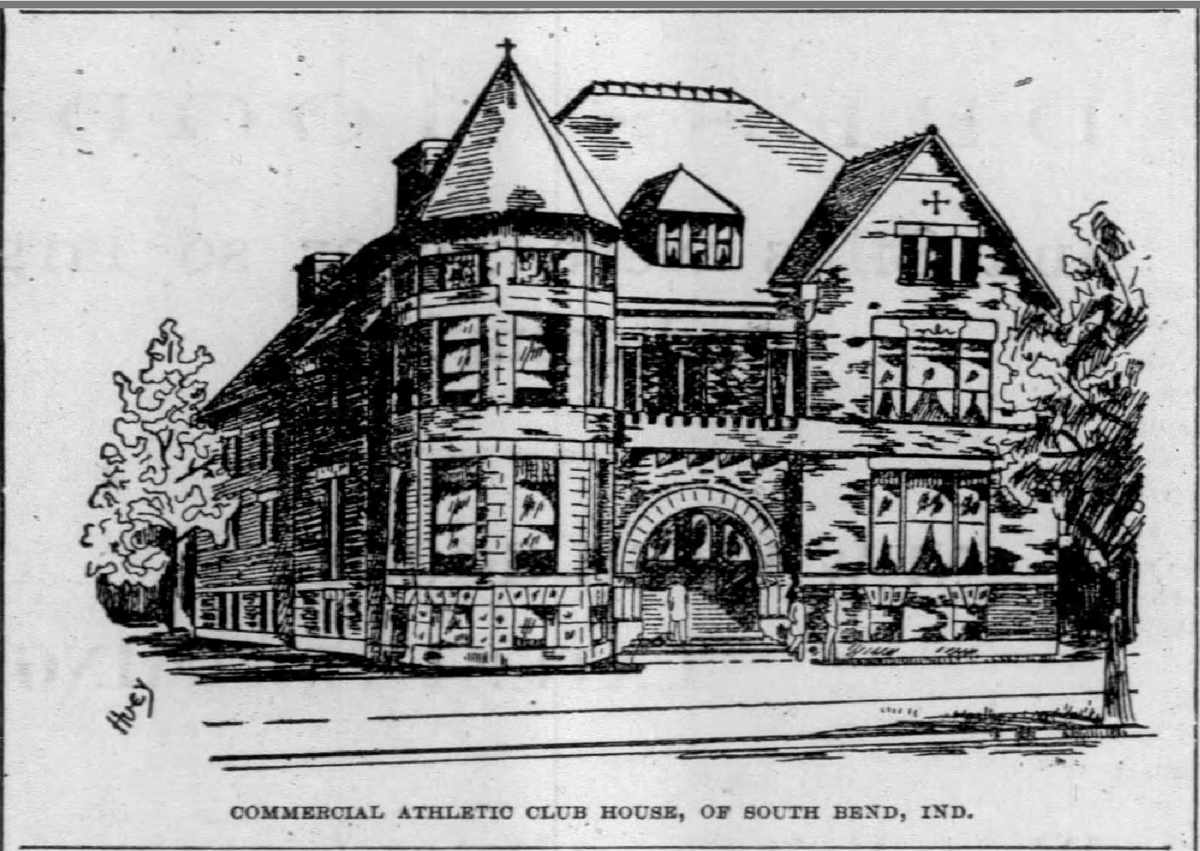 this was the club house for the South Bend Commercial-Athletic Club, created in 1896, and formally opened on October 13rd.